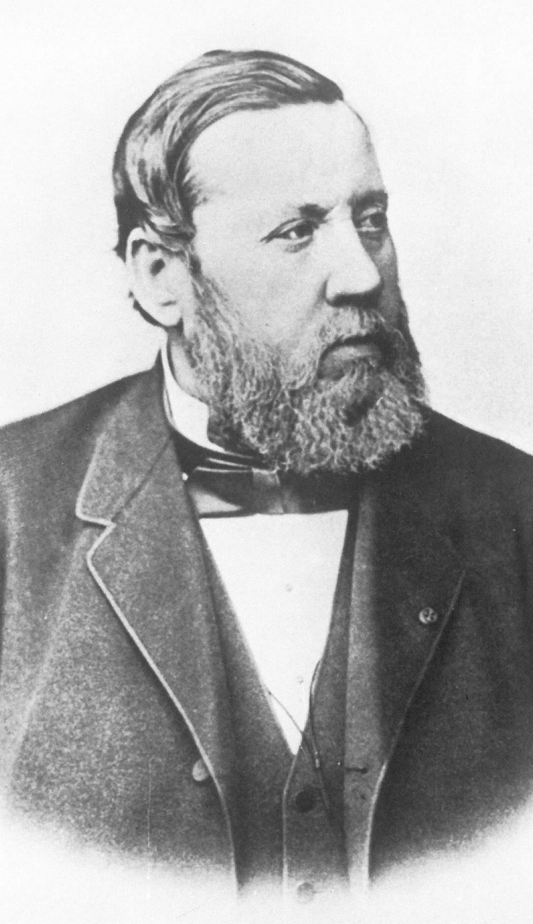 Karl von Ehmann (1827-1884), German engineer and founder of the water supply system for the Swabian Jura